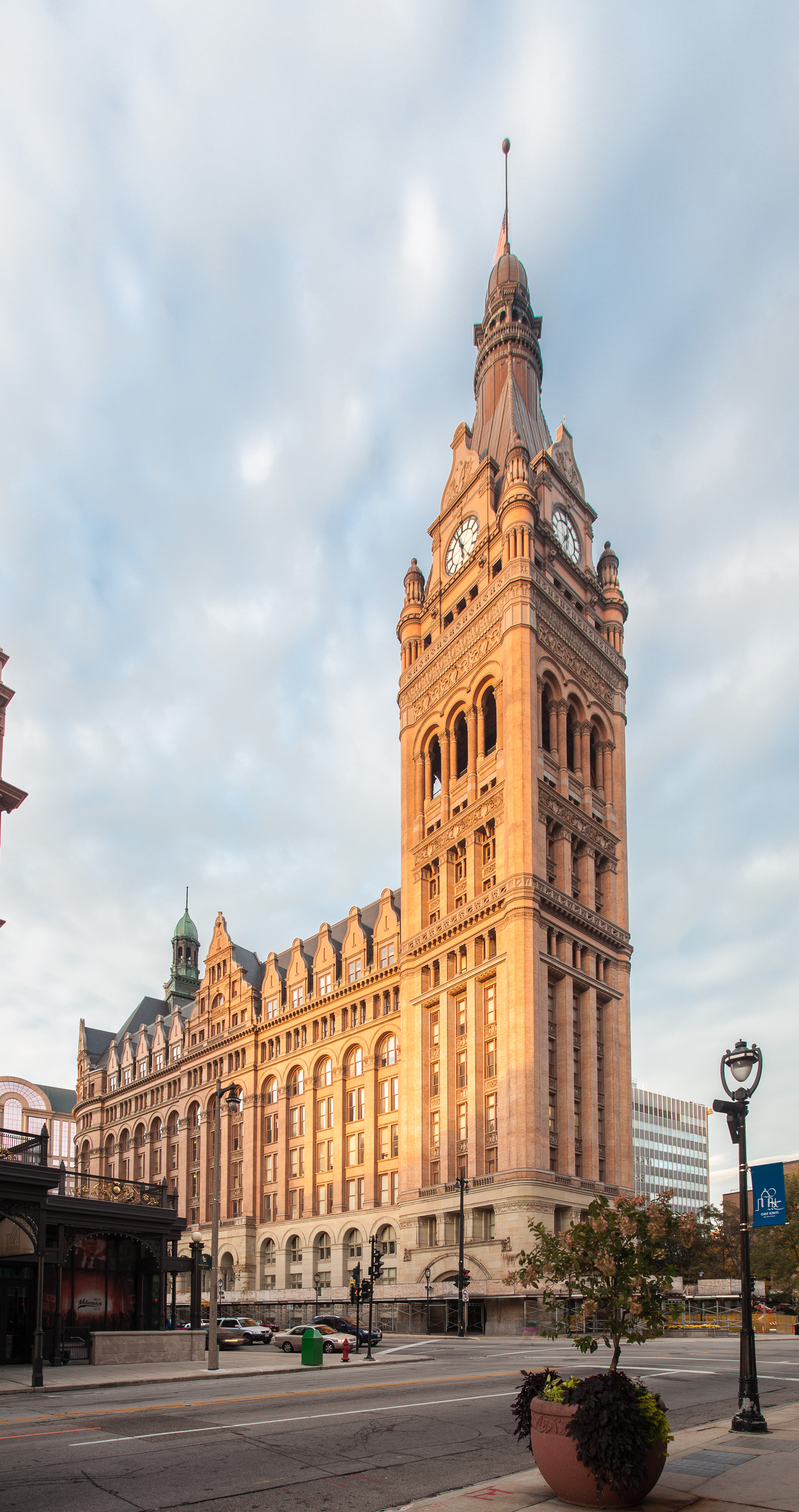 Milwaukee, Wisconsin City Hall in 2012. NRHP ID: 73000085.